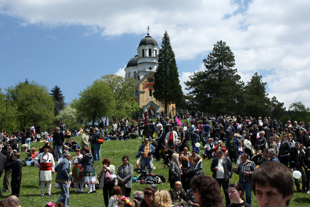 Saint George's day fest at Kremikovtsi Monastery